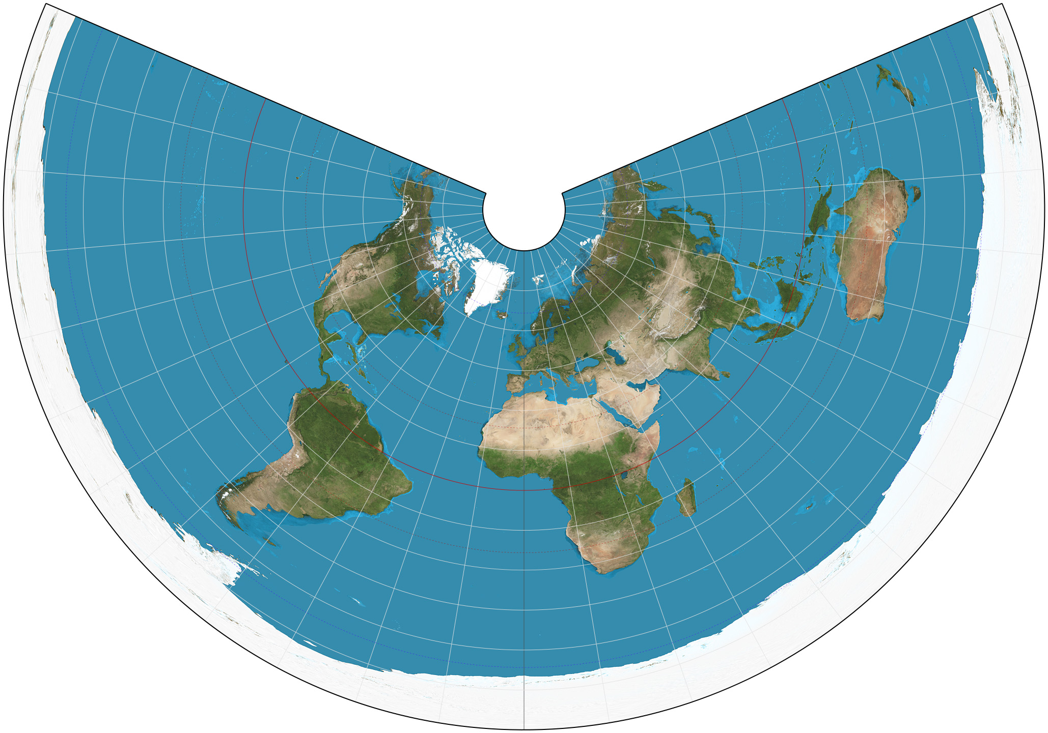 The world on an equidistant conic projection. 15° graticule, standard parallels of 20°N and 60°N. Imagery is a derivative of NASA’s Blue Marble summer month composite with oceans lightened to enhance legibility and contrast. Image created with the Geocart map projection software.